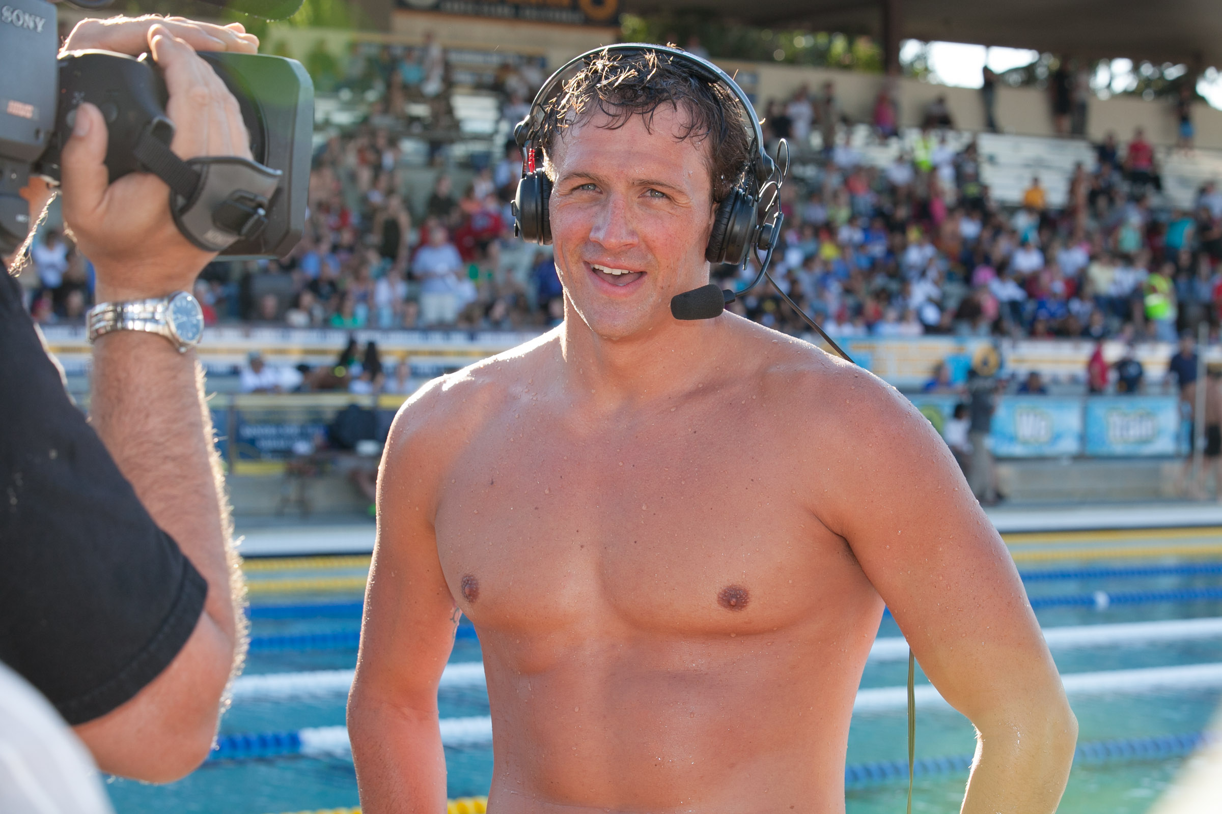 At the 2013 Santa Clara Grand Prix. Photo by JD Lasica.